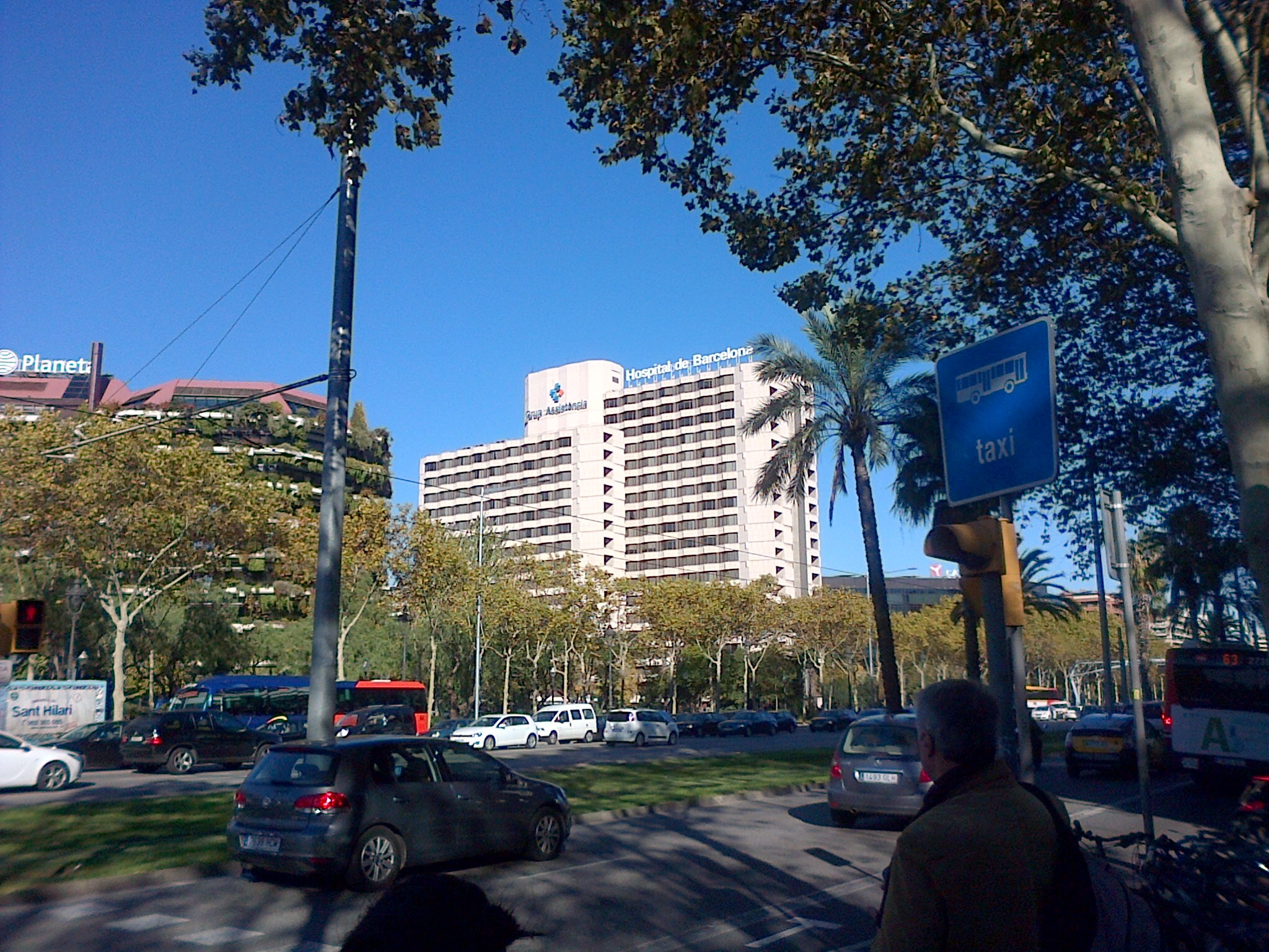 Hospital de Barcelona building, at Diagonal av.